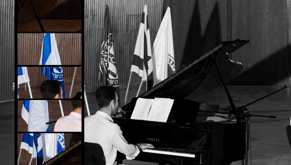 Lander Institute 2013 Graduation Ceremony